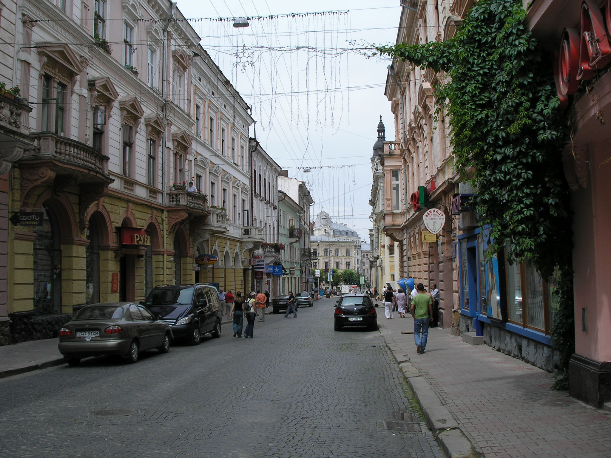 The city center of Chernivtsi, Ukraine